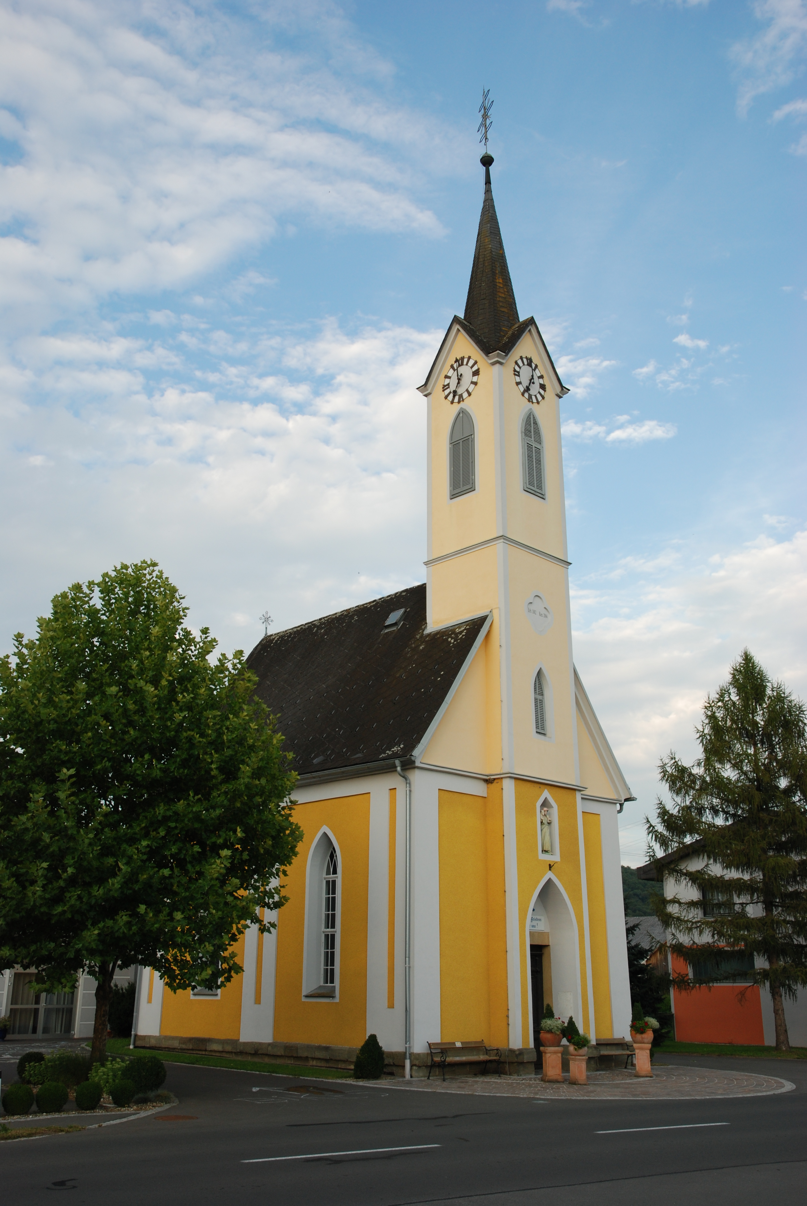 Ortskapelle Grabersdorf